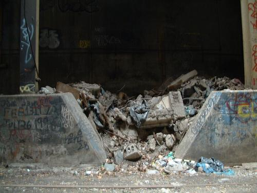 Demolished shantytown in the Freedom Tunnel in Riverside Park, Manhattan